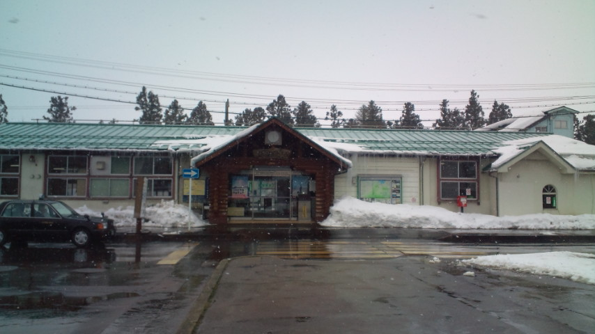 Inawashiro, Fukushima